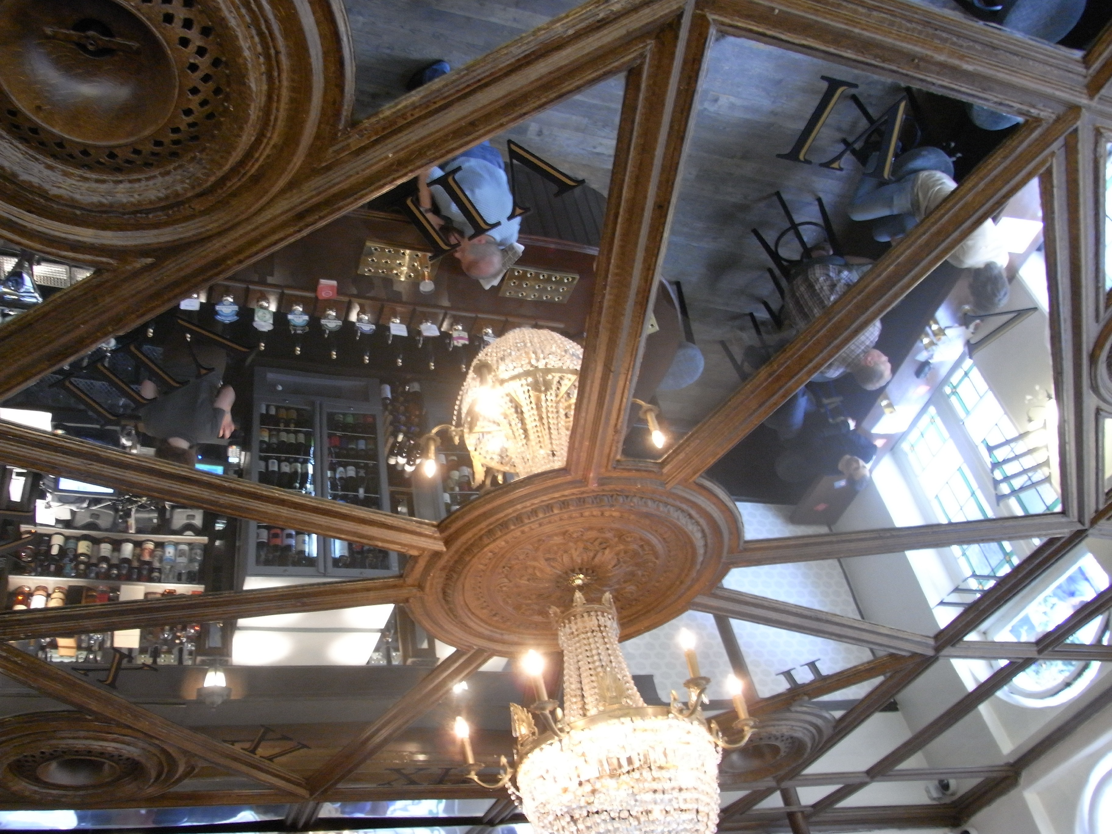 Mirror ceiling in pub in Leather Lane in Holborn